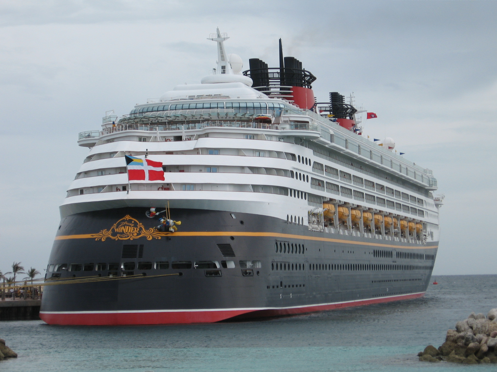 The Disney Wonder, docked at Castaway Cay. Information about Disney Wonder may be found at IMO 9126819. A ship can change her name and flag state through time, but the IMO number remains the same through the hull's entire lifetime. Therefore, it's useful to identify a ship through her IMO number.